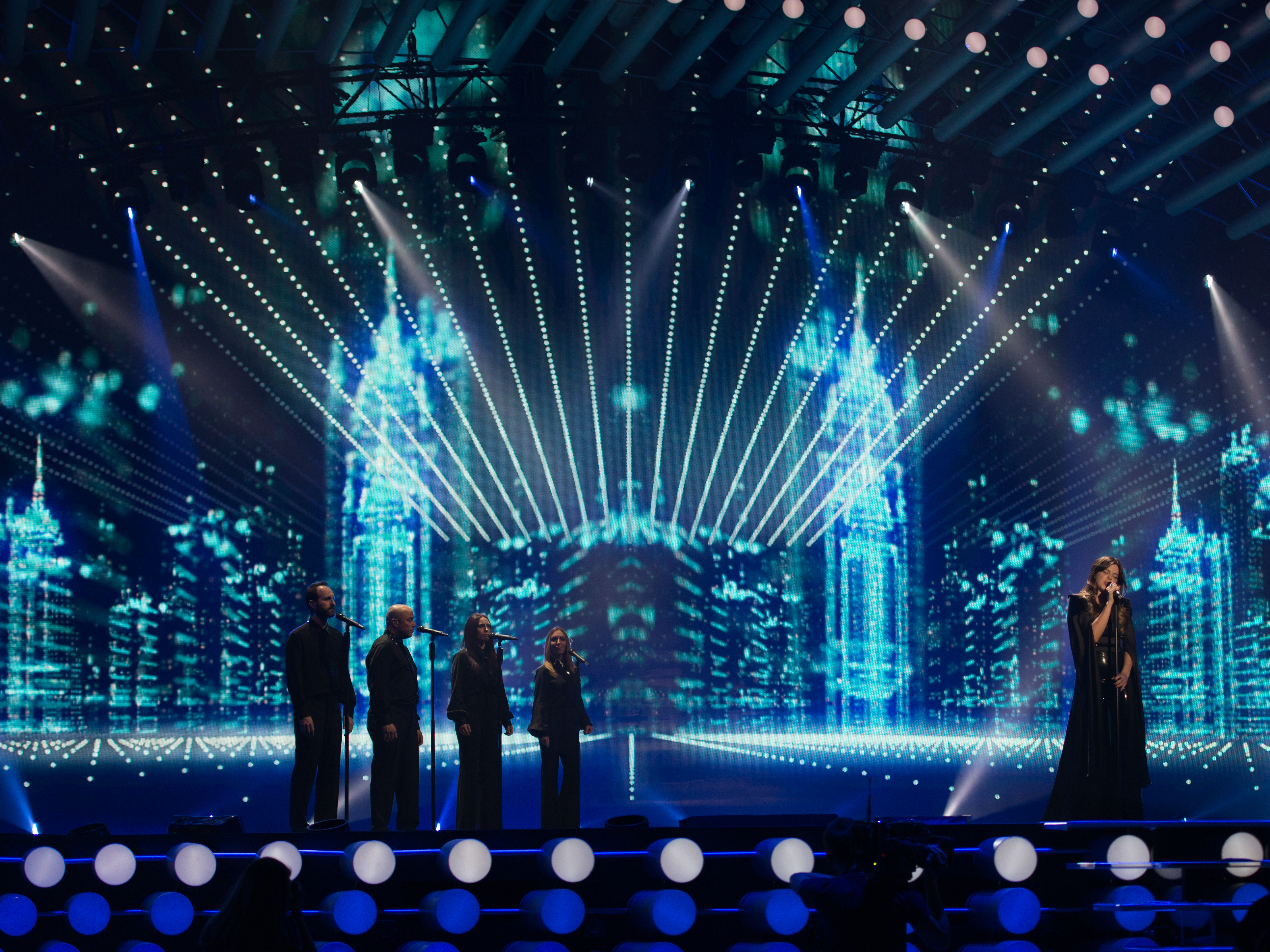 Eurovision Song Contest Vienna 2015: Leonor Andrade